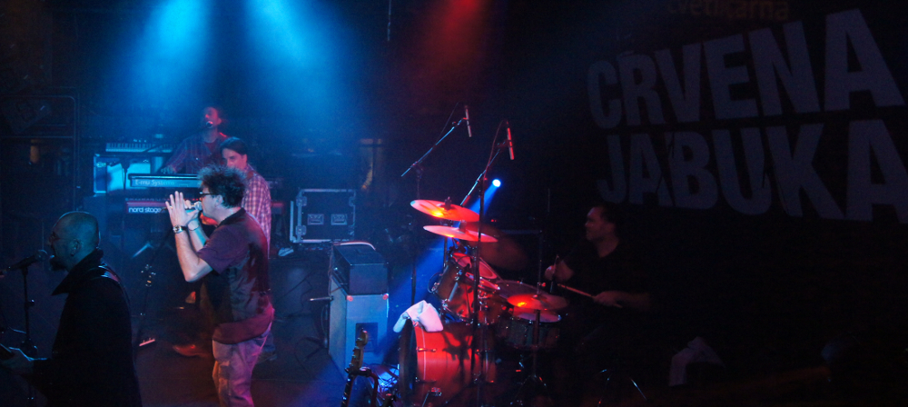 Sarajevo-based rock/pop band Crvena jabuka performing in Ljubljana, Slovenia